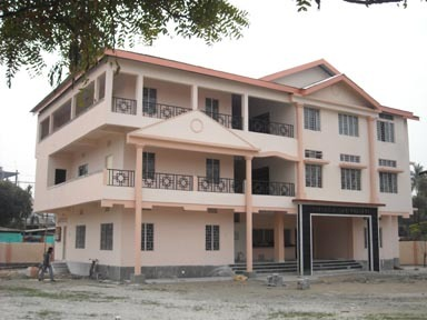 Tinsukia college Gate